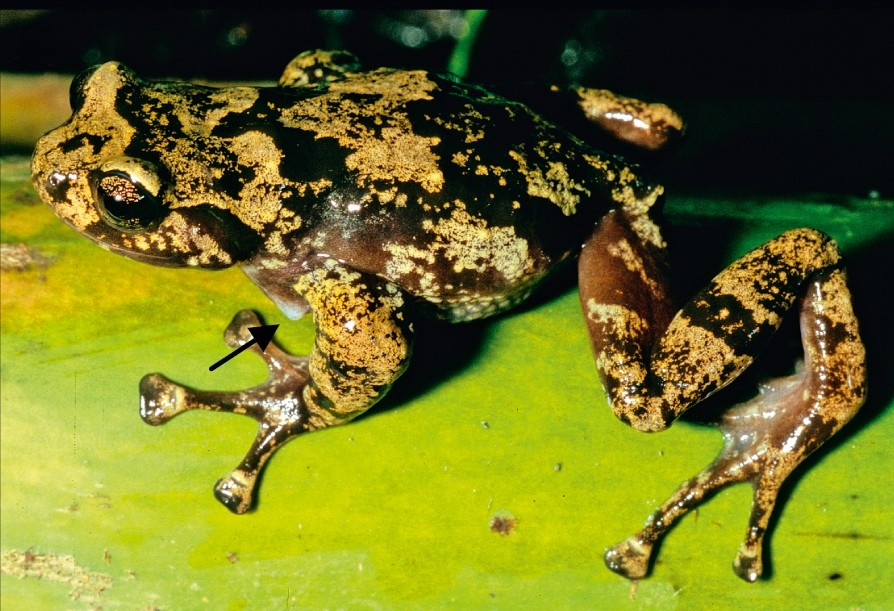 Anodonthyla rouxaeSpecimens from Andohahela National Park (ZSM 98/2005). Arrow points at the humeral spine typical for A. rouxae.